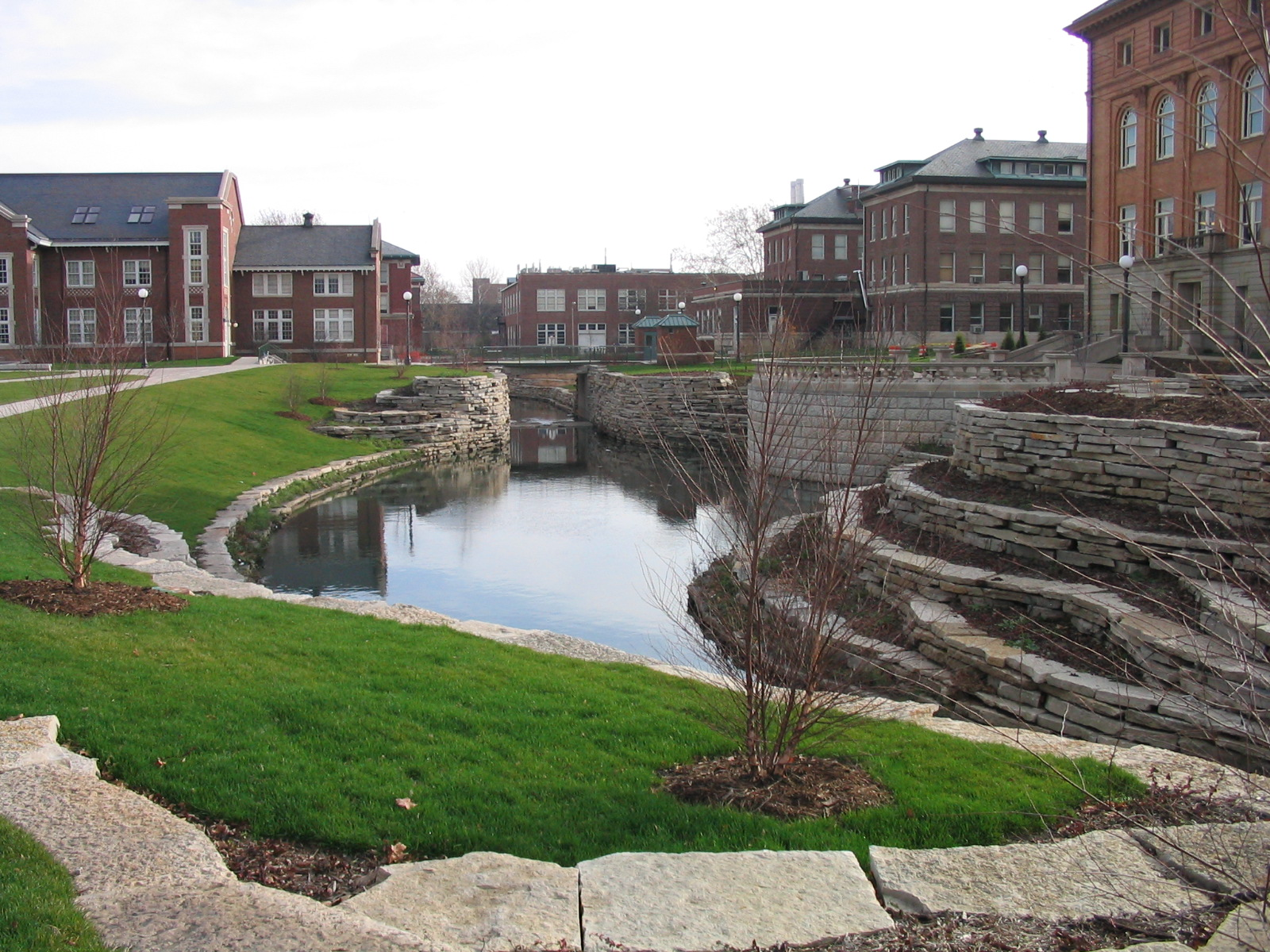 Boneyard Creek on the UIUC campus (Fotos from the Champaign-Urbana, Illinois area.)